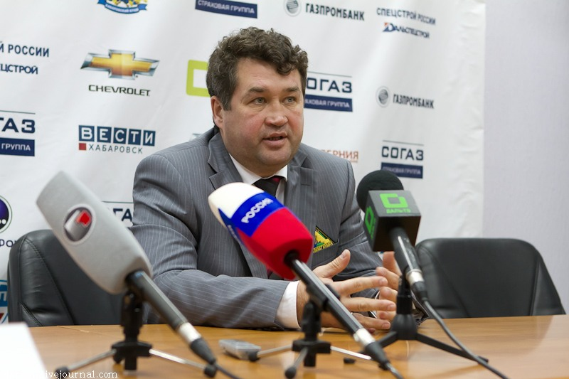 Salavat Yulaev Ufa assistant coach Vener Safin after the KHL-game against Amur Khabarovsk on September 24, 2011 (Salavat lost 1-3).